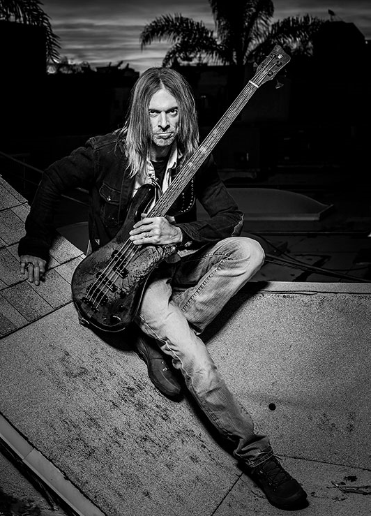 Rex Brown ˝Smoke On This˝ 2017